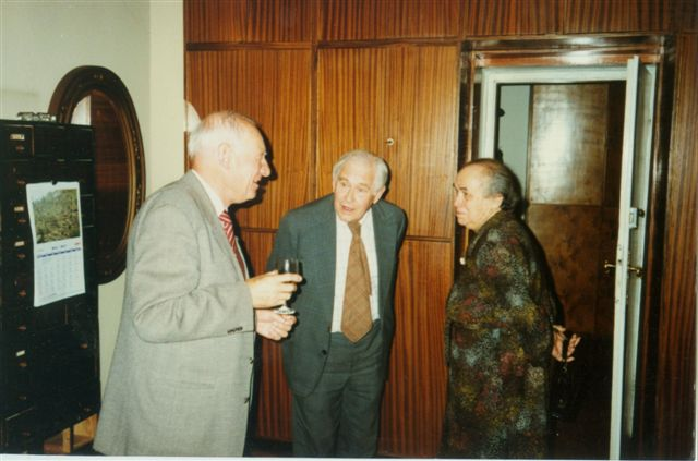 Jacek Bocheński (b. 1926), Polish writer, Ryszard Matuszewski (b. August 18, 1914 in Warsaw, Poland, d. April 29, 2010 in Warsaw, Poland) - Polish literary critic, writer, essayist and publicist and Irena Szymańska (1921-1999), Polish editor and translator